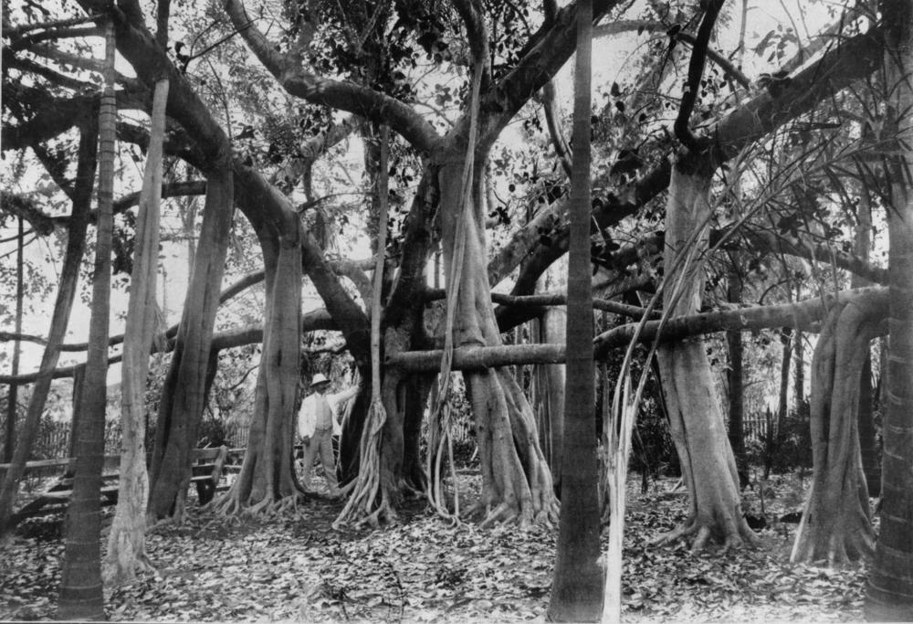 Banyan fig tree in the Rockhampton Botanic Gardens, 1910. Large Banyan fig tree with multiple trunks at the Rockhampton Botanic Garden, 1910. The Banyan fig tree has branches that send out roots to the ground which thicken and ultimately become trunks.